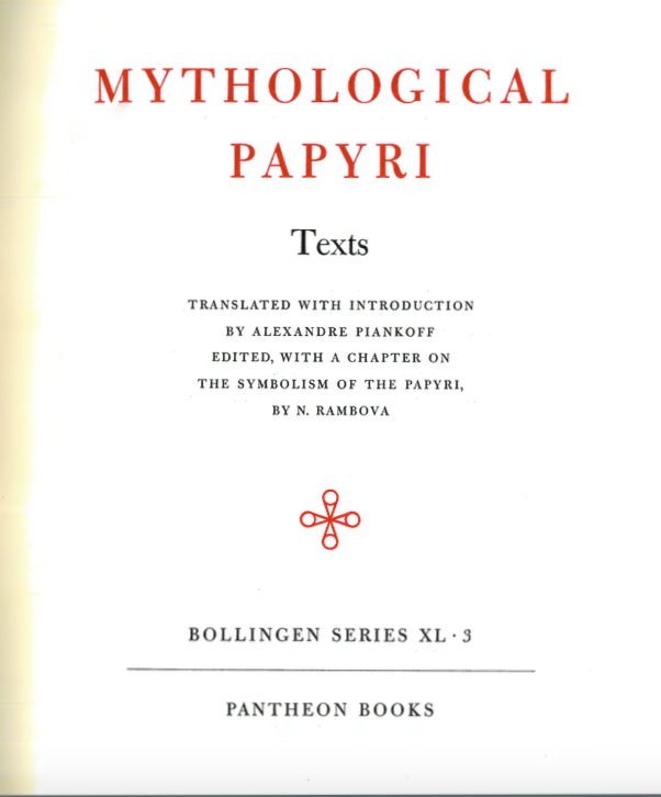 Title page of Egyptological study Mythological Papyri by Alexandre Piankoff and Natacha Rambova